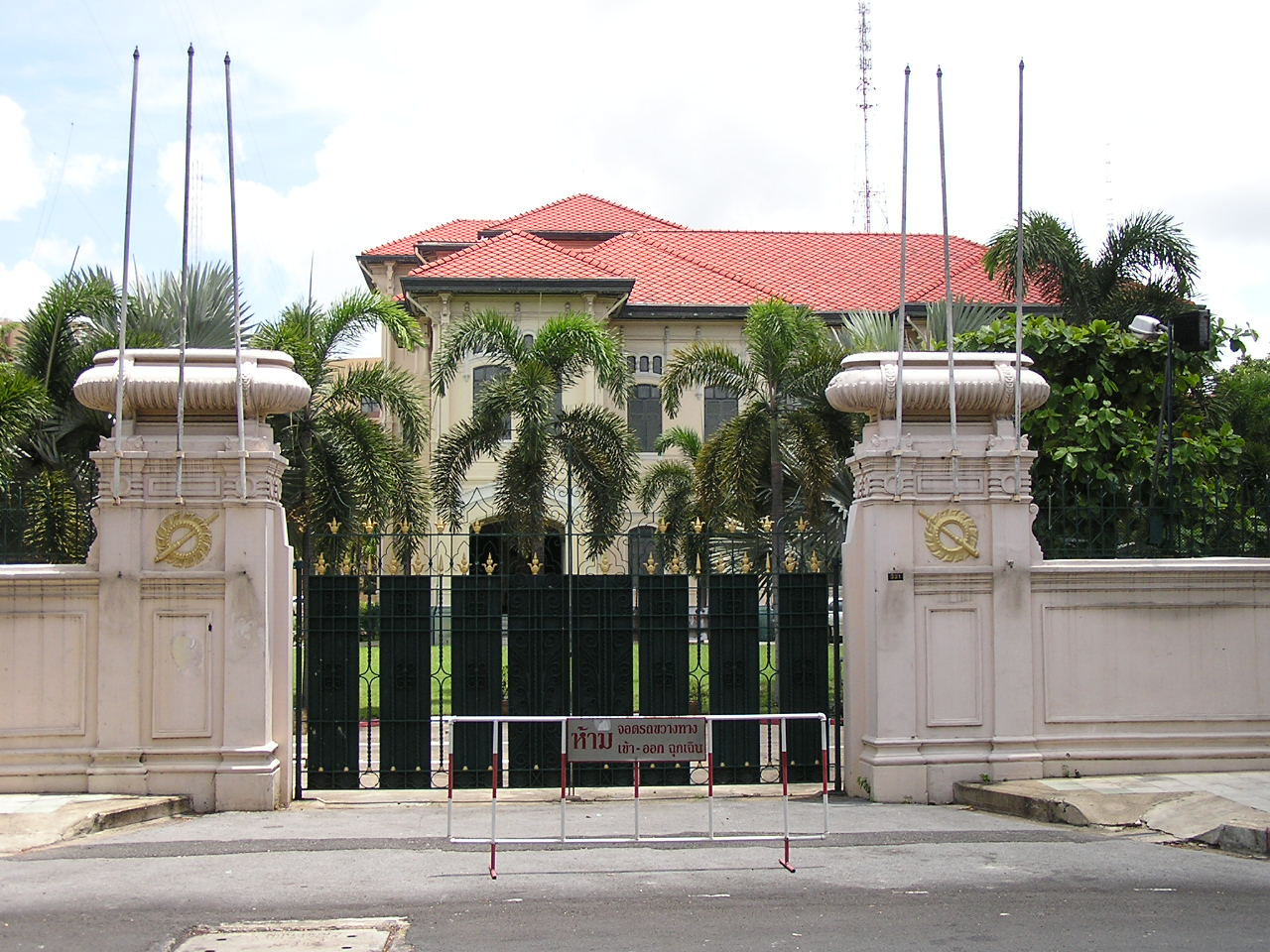 Paruskawan mansion, Paruskawan Palace, Dusit Palace, former residence of HRH Prince Chakrabongse Bhuvanath since 1906